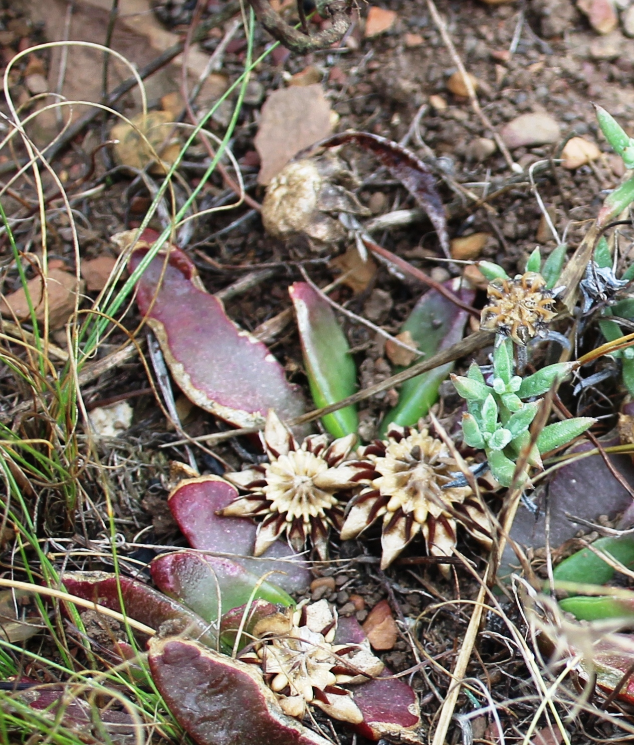 Glottiphyllum depressum seed capsules open in rain. Capsules without stalks and quickly fall off the plant